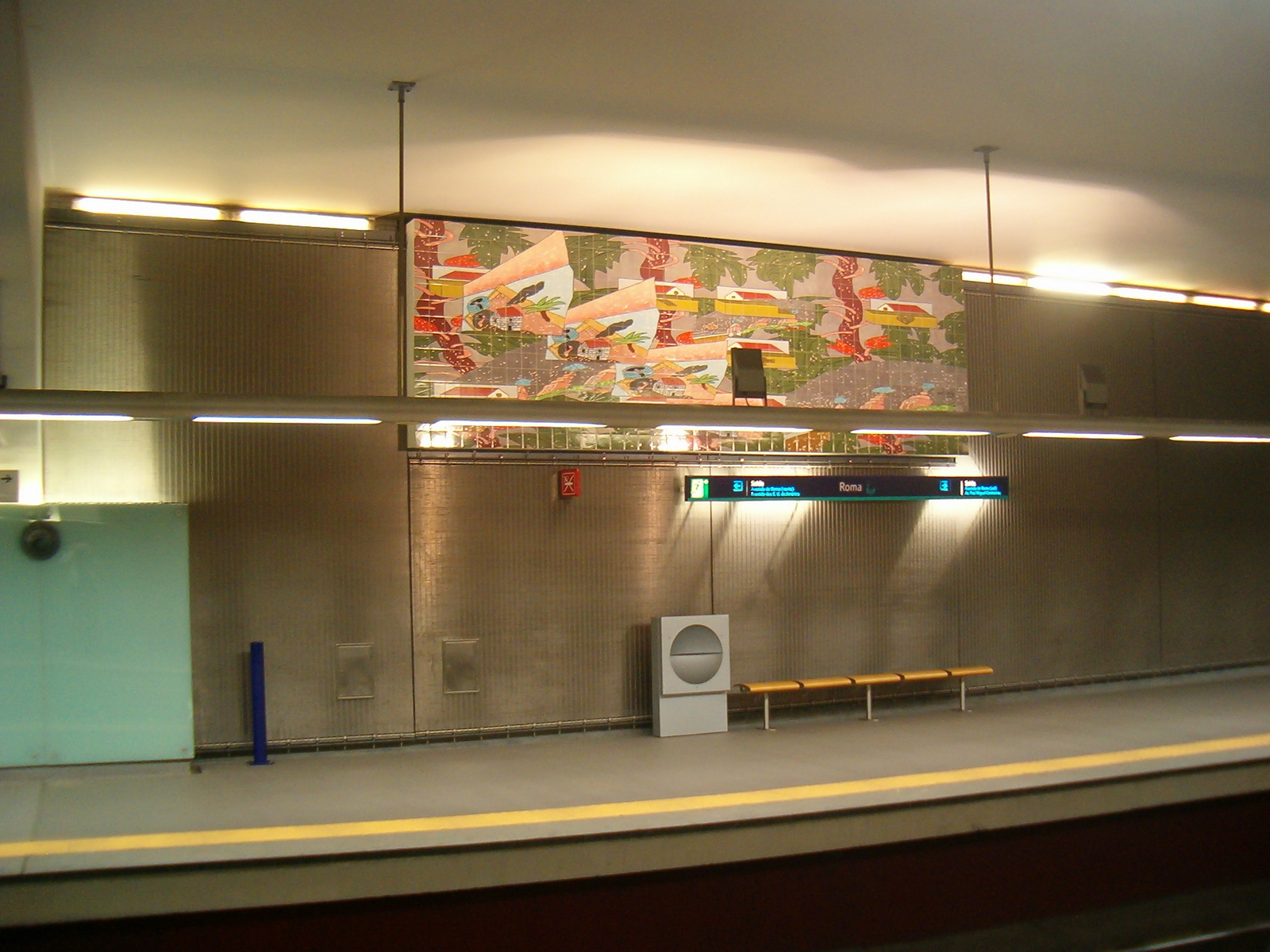 Metro station Roma (Lisboa)